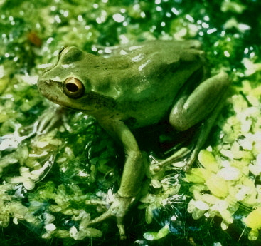 Mediterranean Tree Frog, Stripeless Tree Frog (Hyla meridionalis)